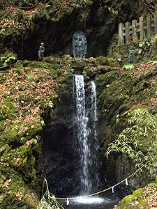 Daihi-no-taki waterfall at Okunoin of Mangan-ji temple in Tochigi, Tochigi prefecture